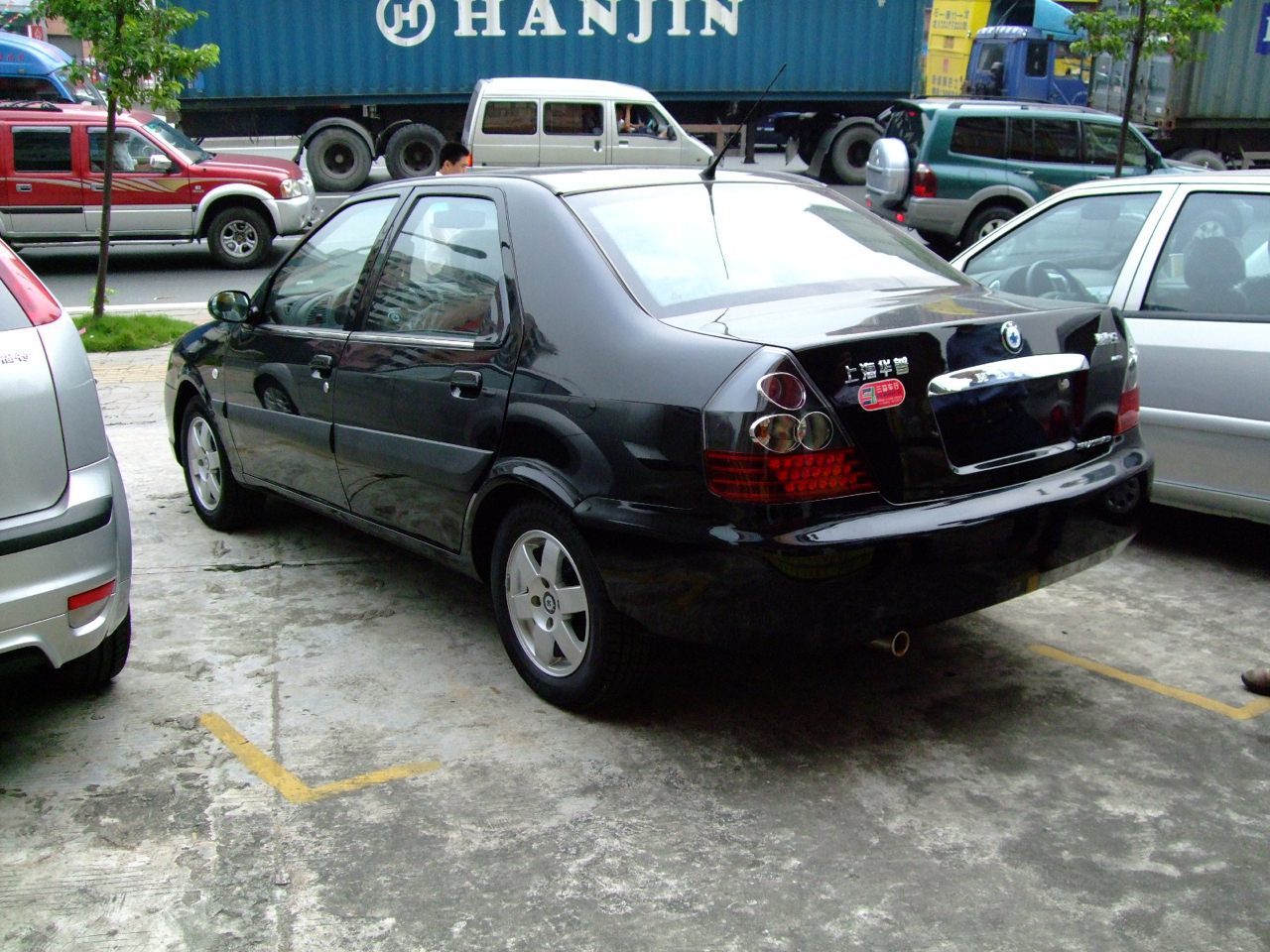 Shanghai Maple 4-door sedan model year 2008